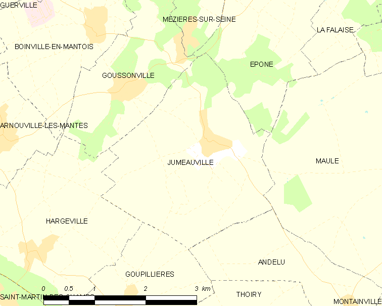 Map of French municipality Jumeauville